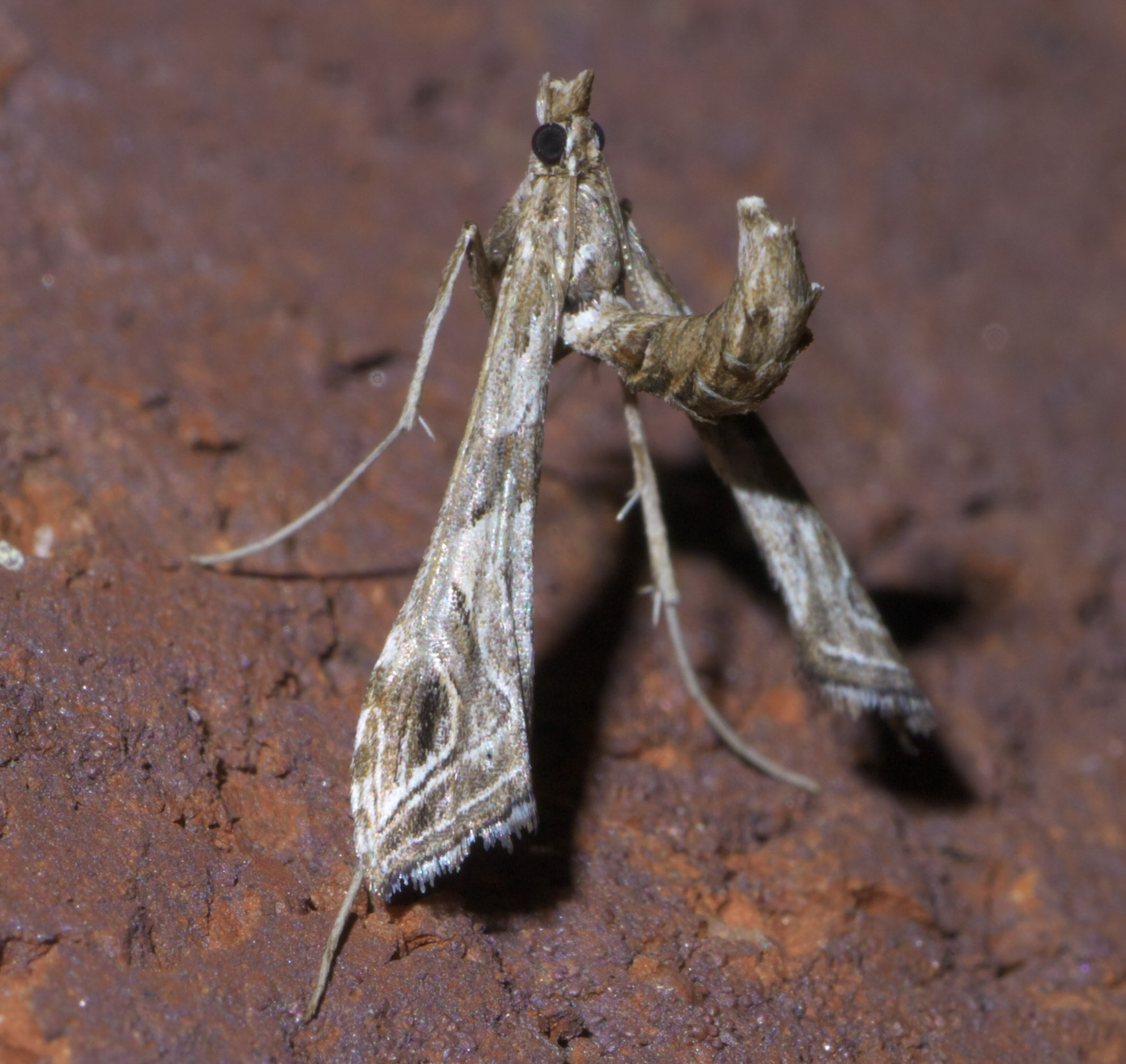 Lineodes interrupta, Hodges #5108, upper right, ID Confidence: 88